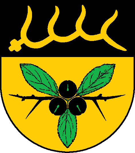 Coat of arms of the municipality Kröppelshagen-Fahrendorf in Schleswig-Holstein, Germany.